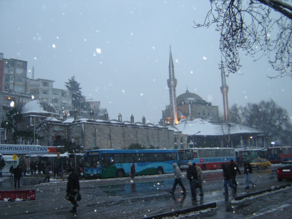 Central Uskudar on a snowy day, with Mihrimah Sultan Mosque in the background